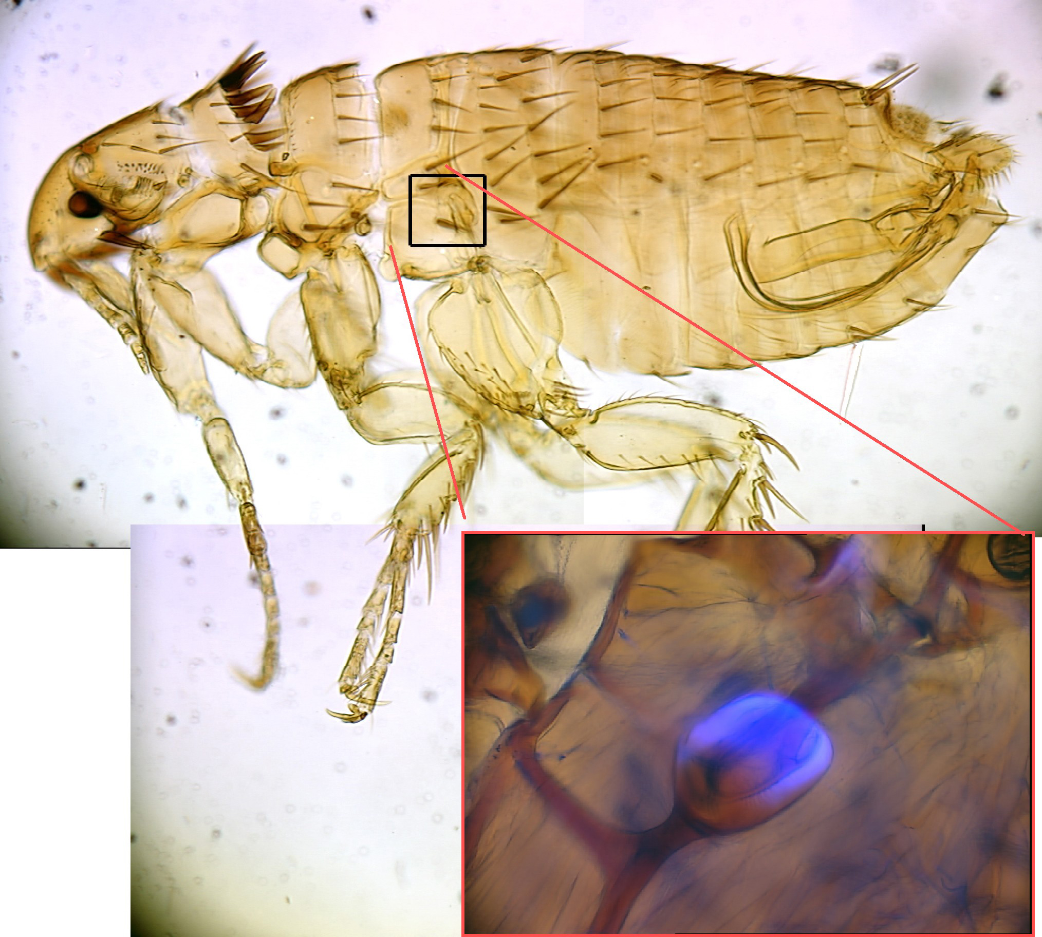 CSIRO scientists have copied nature to produce a near-perfect rubber from resilin, the elastic protein which gives fleas their remarkable jumping ability and helps insects fly.This picture of a flea shows the fluorescent (due to dityrosine) resilin pad in the legs of the flea. This pad is squeezed as the leg muscles operate and all of the energy imparted via the leg muscles is released from the resilin pad in about a millisecond. Resilin has a near-perfect capacity to recover, or 'bounce back', after stress is applied and extraordinary durability, which may have applications in industry and medicine.